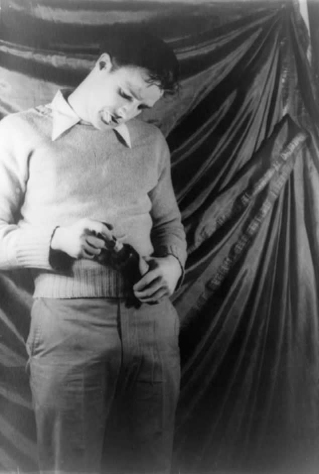 Portrait of Marlon Brando, in A Streetcar Named Desire, 1948 Dec. 27.